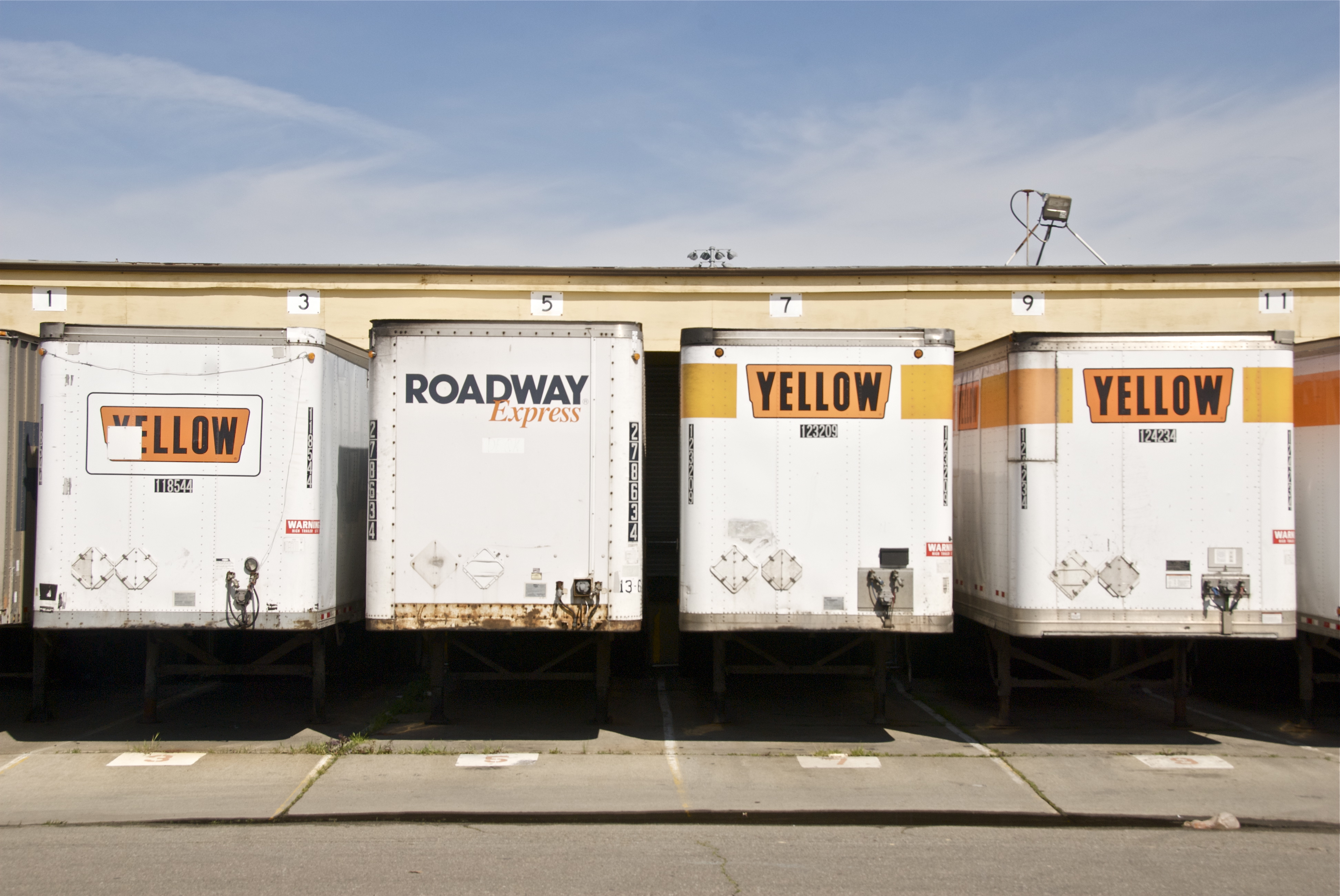 Vintage "Yellow Transportation" and "Roadway Express" logos. Company name now YRC Worldwide. by Cam Vilay